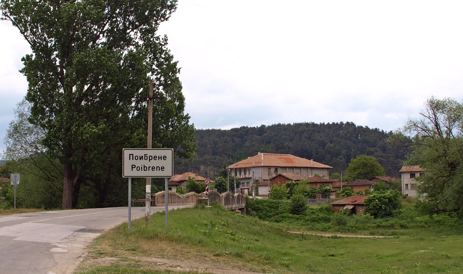 Entrance road to Poibrene with the bridge over Topolnitsa river